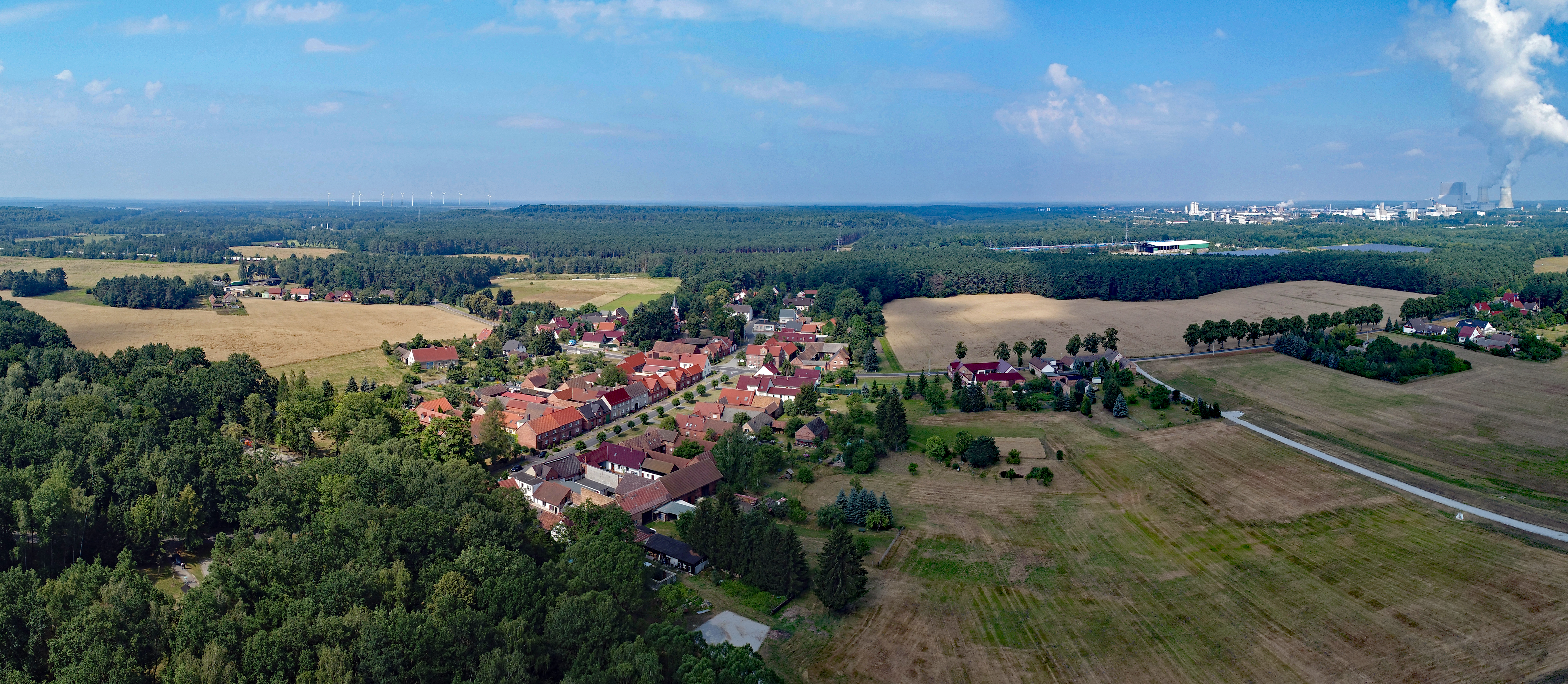 Spreewitz (Saxony, Germany) Hornjoserbsce: Powětrowy wobraz Šprjejc